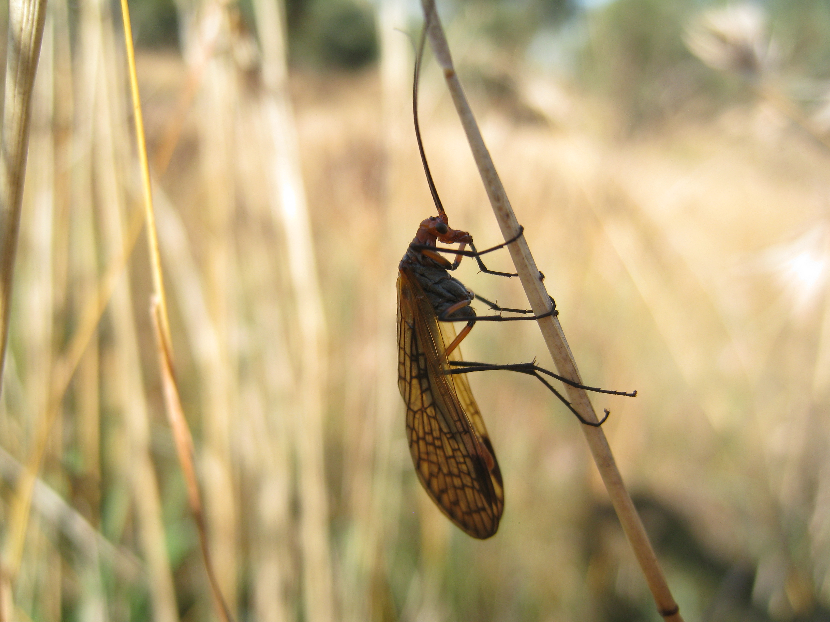 Chorista australis is a species of scorpionfly in the family Choristidae. Gundaroo Common, Gundaroo NSW Australia, April 2011.